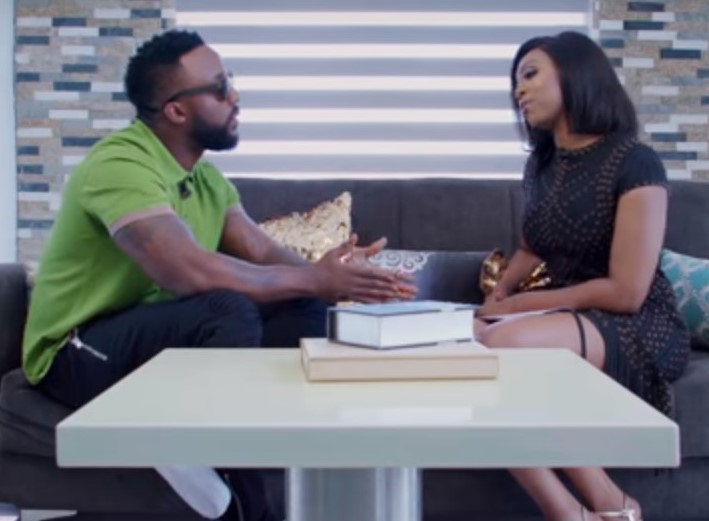 Bolanle chats with musician and former MTN Project Fame winner, Iyanya.